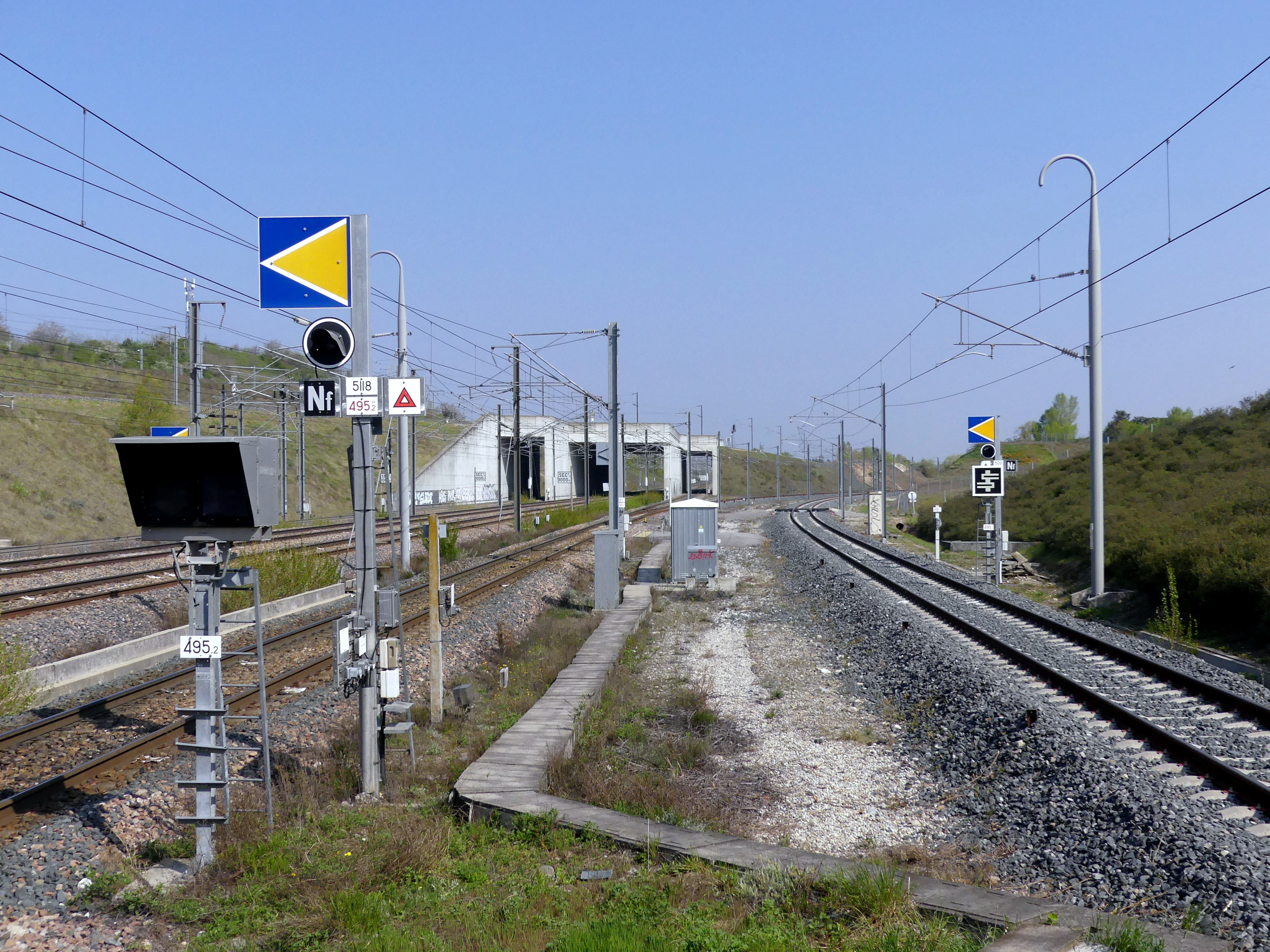 Sight, from Valence-TGV platform, of LGV Rhône-Alpes high speed line (left) and the junction from Valence-Moirans railway classic line, in Drôme, France.